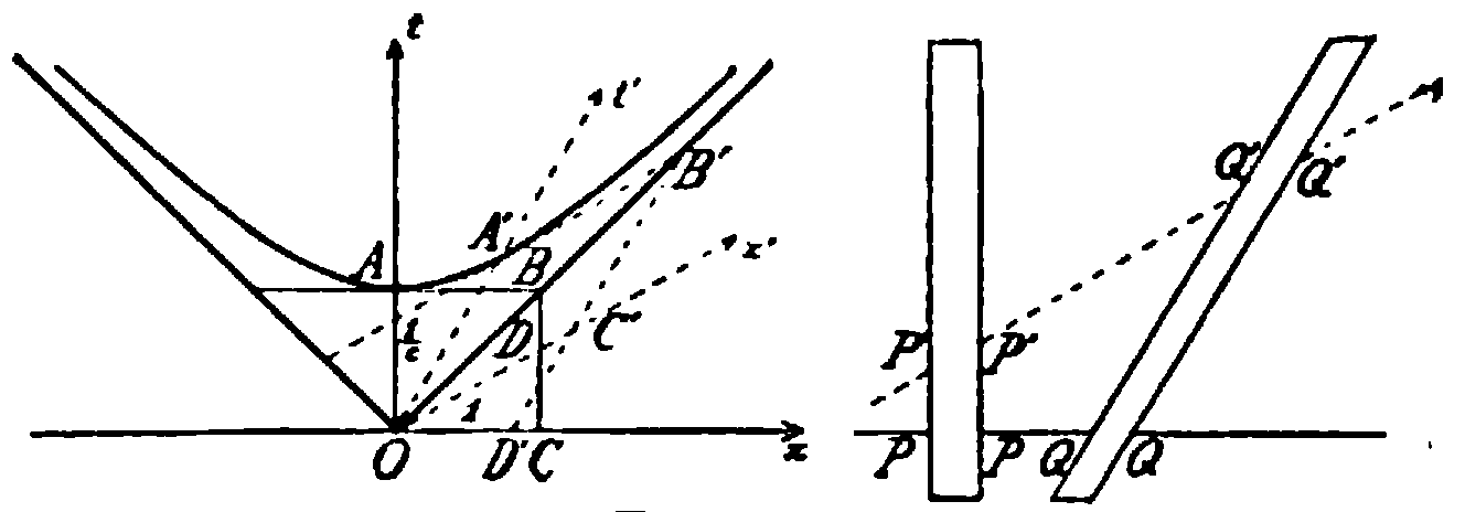 Fig. 1